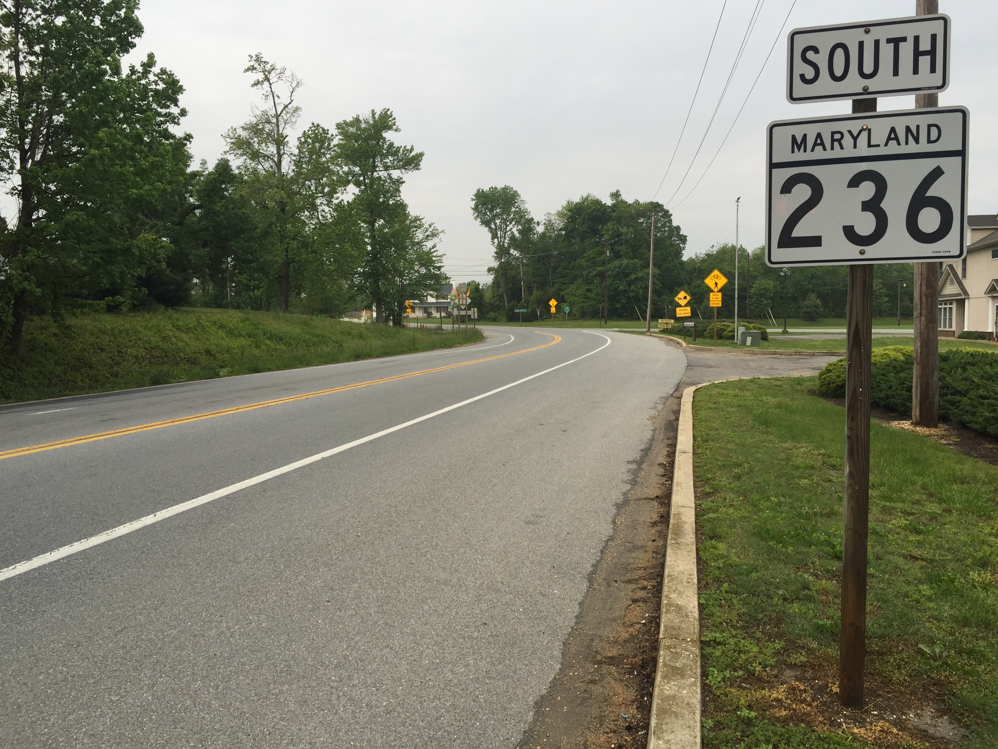 View south along Thompson Corner Road (Maryland State Route 236) near Three Notch Road (Maryland State Route 5) in Charlotte Hall, St. Mary's County, Maryland